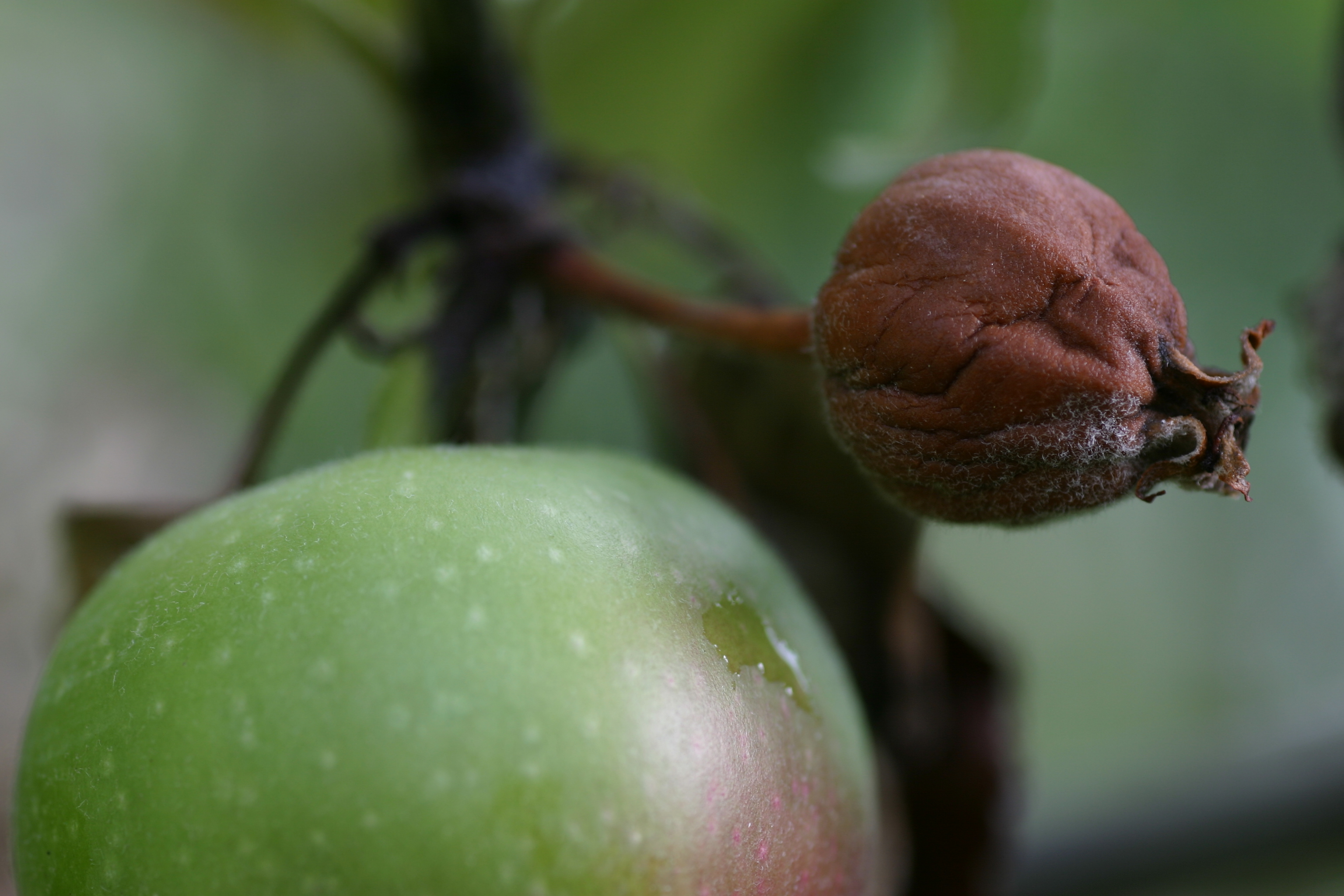 Apple tree with fire blight, closeup on apple